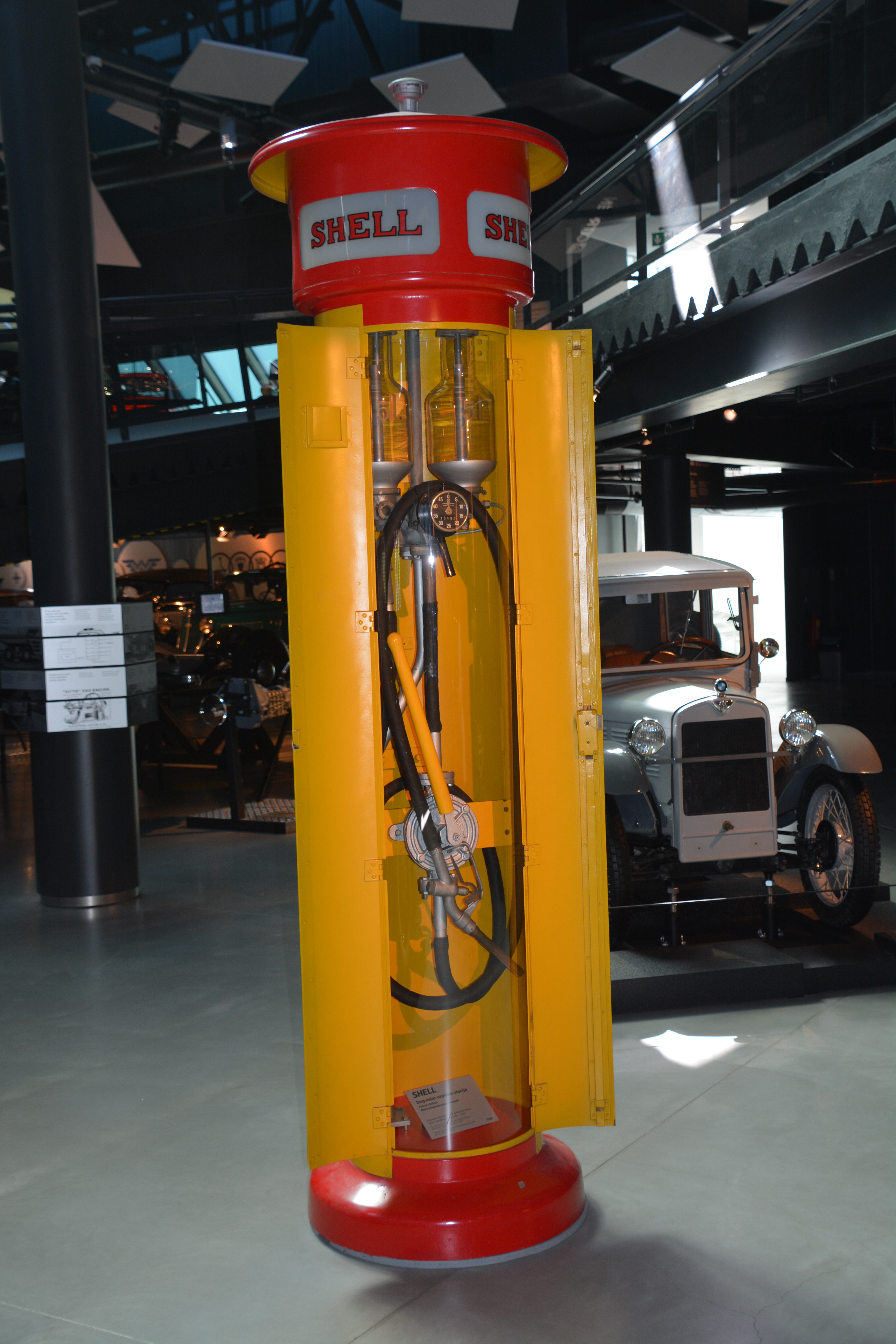 Shell petrol pump, Riga Motor Museum